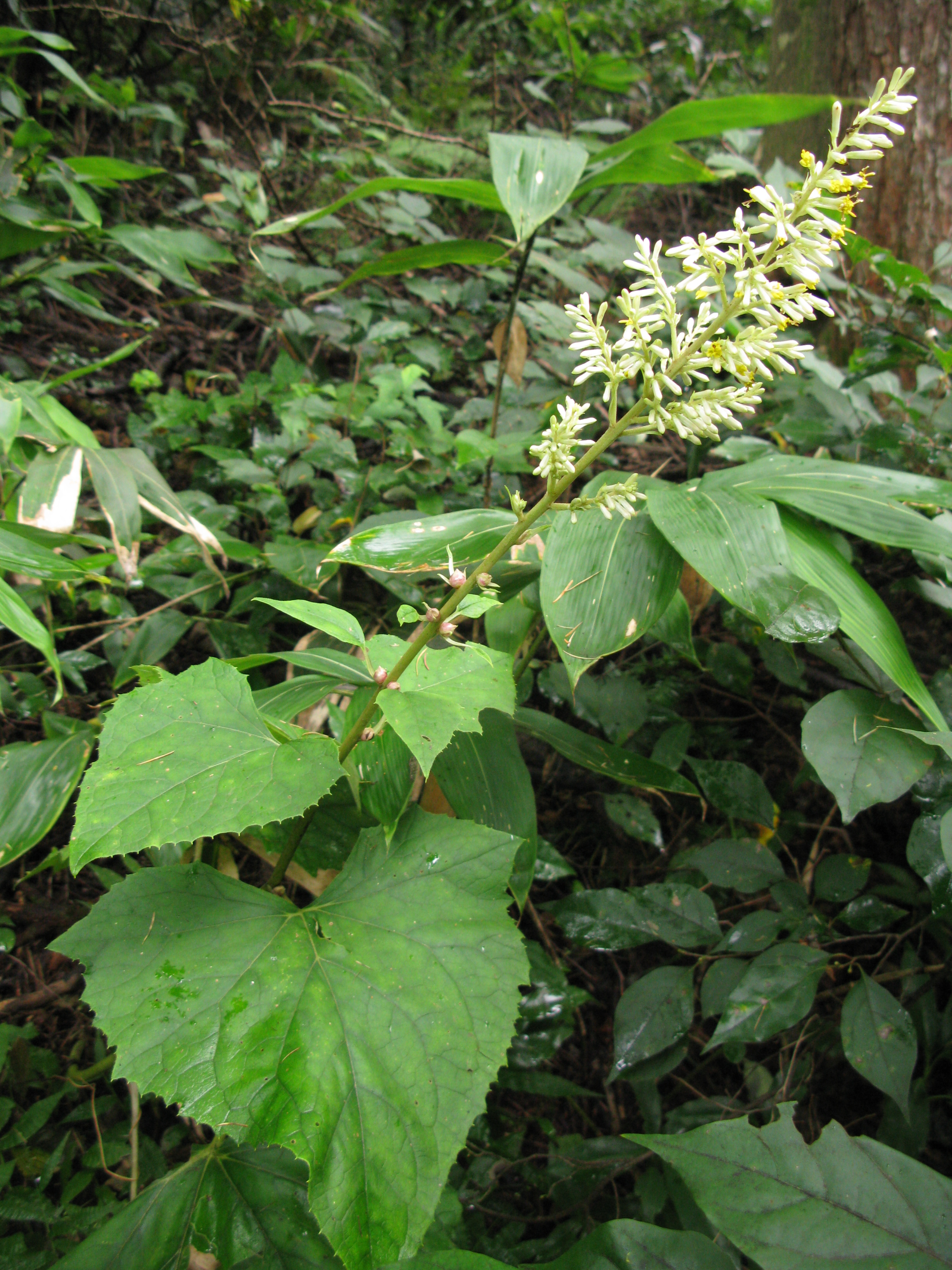 Parasenecio farfarifolius var. bulbifer, Aizu area, Fukushima pref., Japan